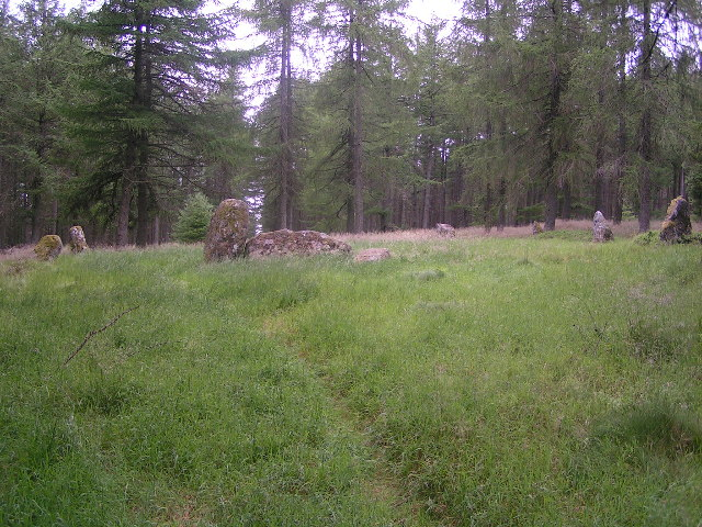 The Nine Stanes. This is a recumbent stone circle, a type unique to the north east of Scotland.